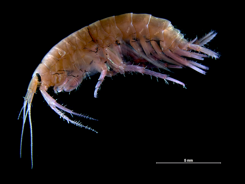 A benthic amphipod from the Belgian part of the North Sea. Length = 12 mm Focus stacking of 15 pictures.